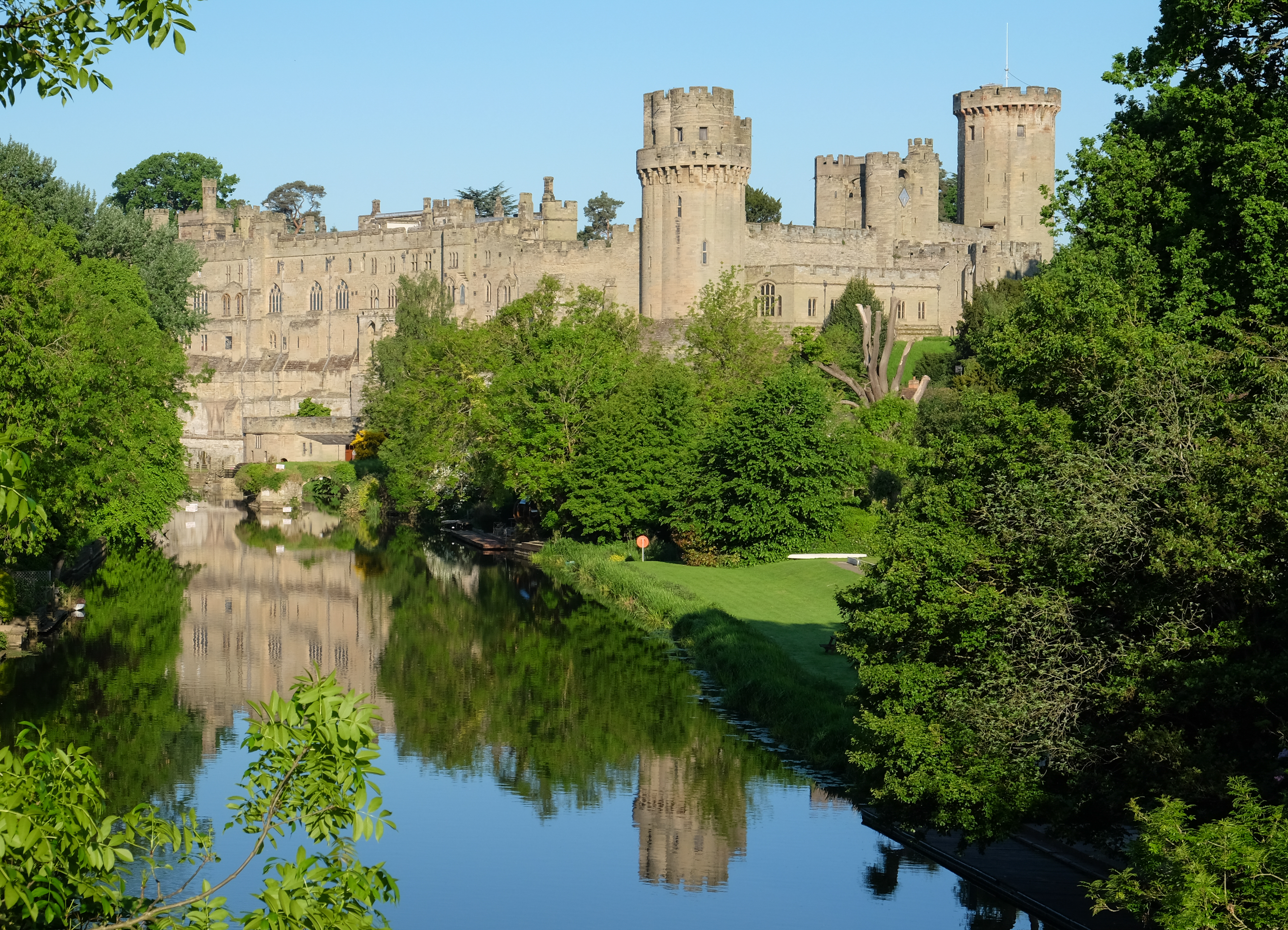 Warwick Castle from the bridge over the River Avon, Warwick, Warwickshire, UK.